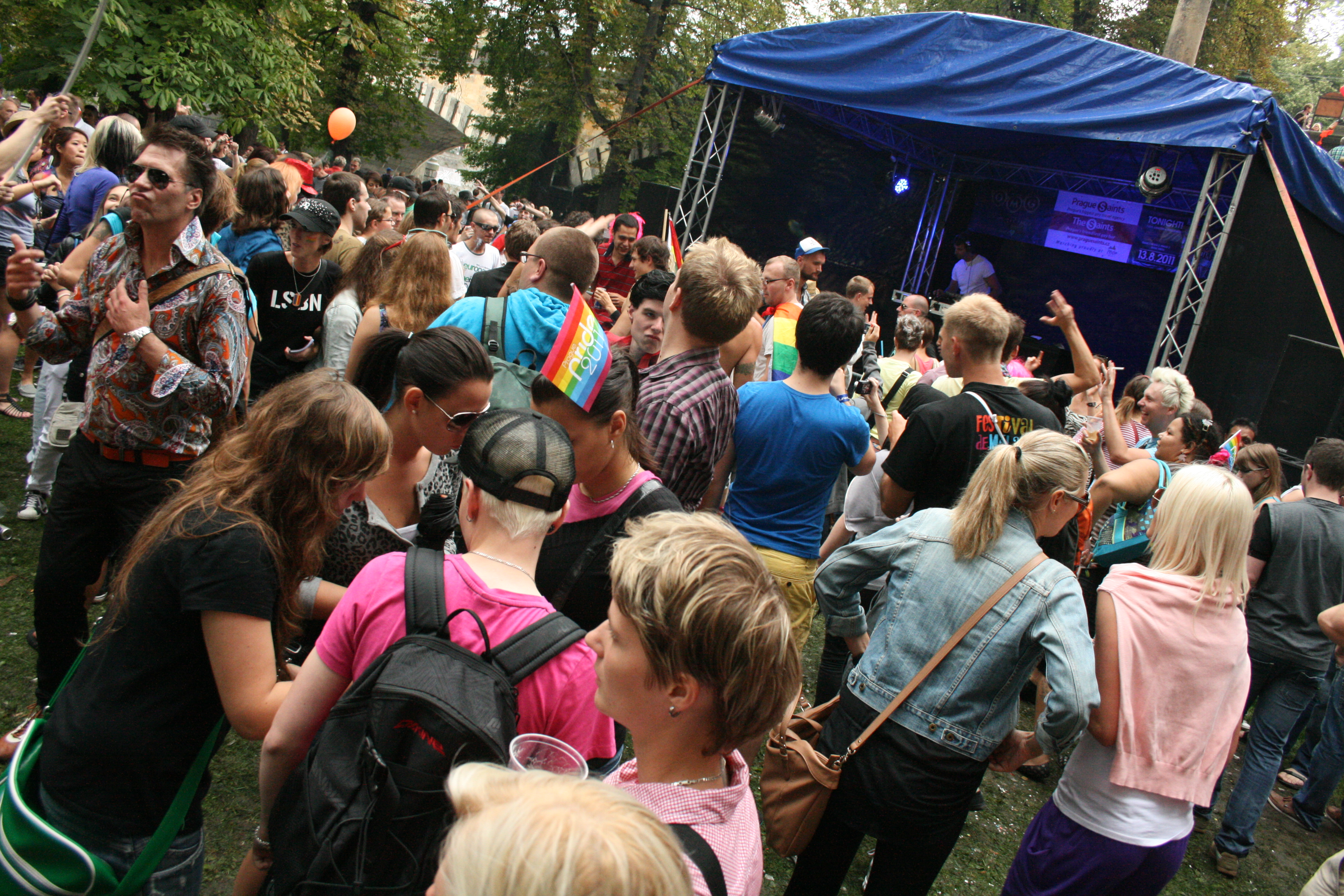 Prague Pride 2011 music festival at Střelecký ostrov, Prague, Czech Republic.